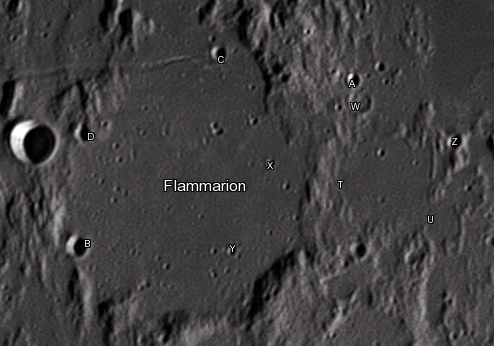 Flammarion lunar crater as seen from Earth with satellite craters labeled